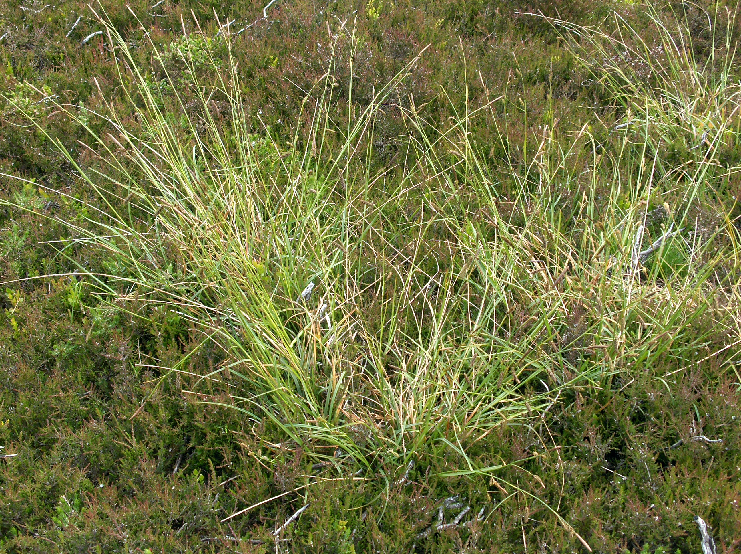 Carex binervis, growing in a heath dominated by Calluna vulgaris